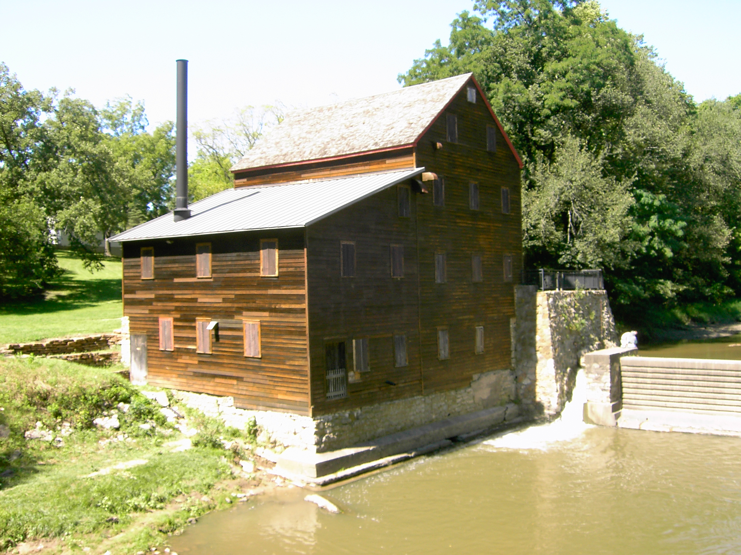 Pine Creek Grist Mill (built in 1848) at Wildcat Den State Park in Muscatine County, Iowa on September 1, 2014